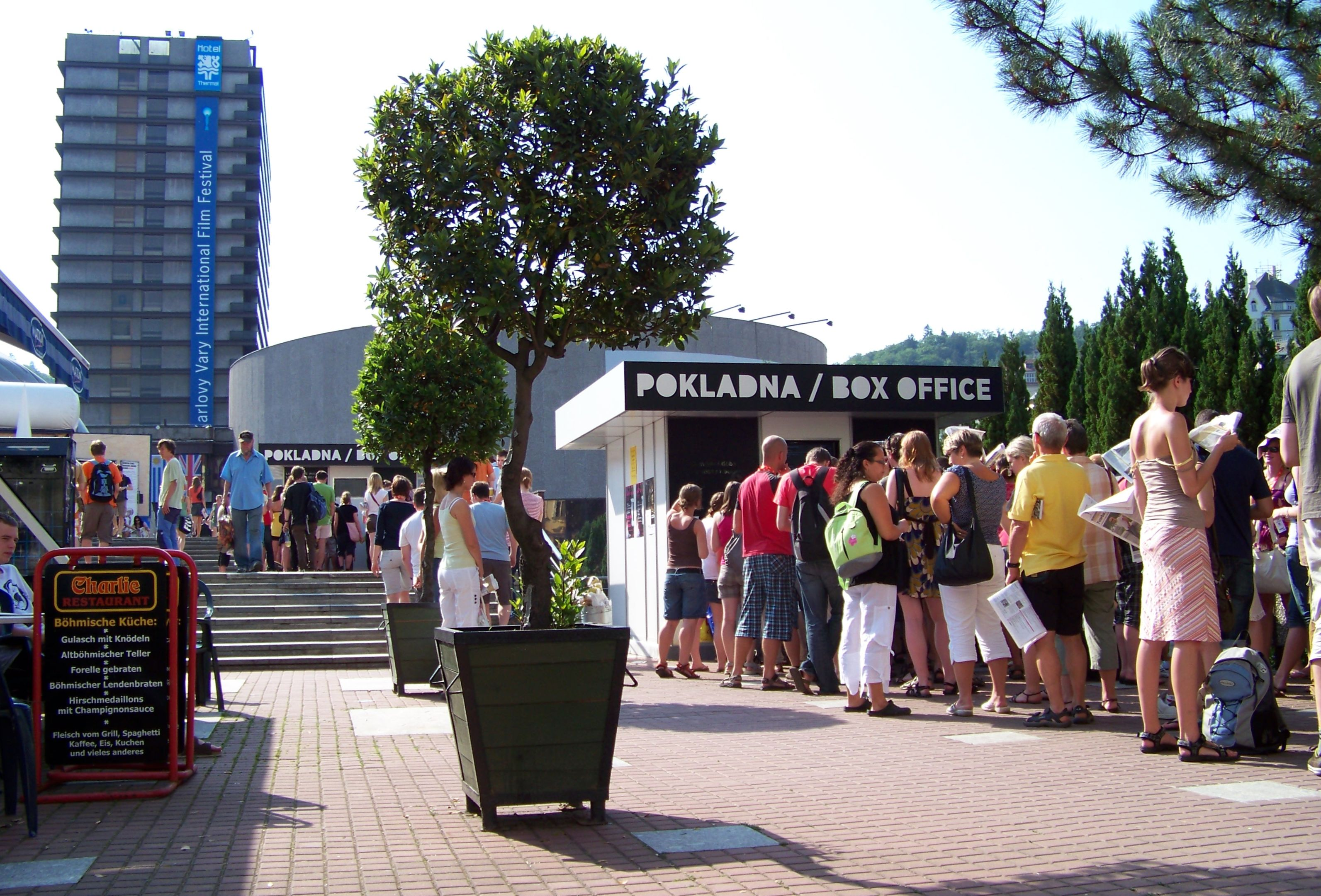 Karlovy Vary, the Czech Republic. Hotel Thermal, the 45th International Film Festival. Last Minute ticket counters.